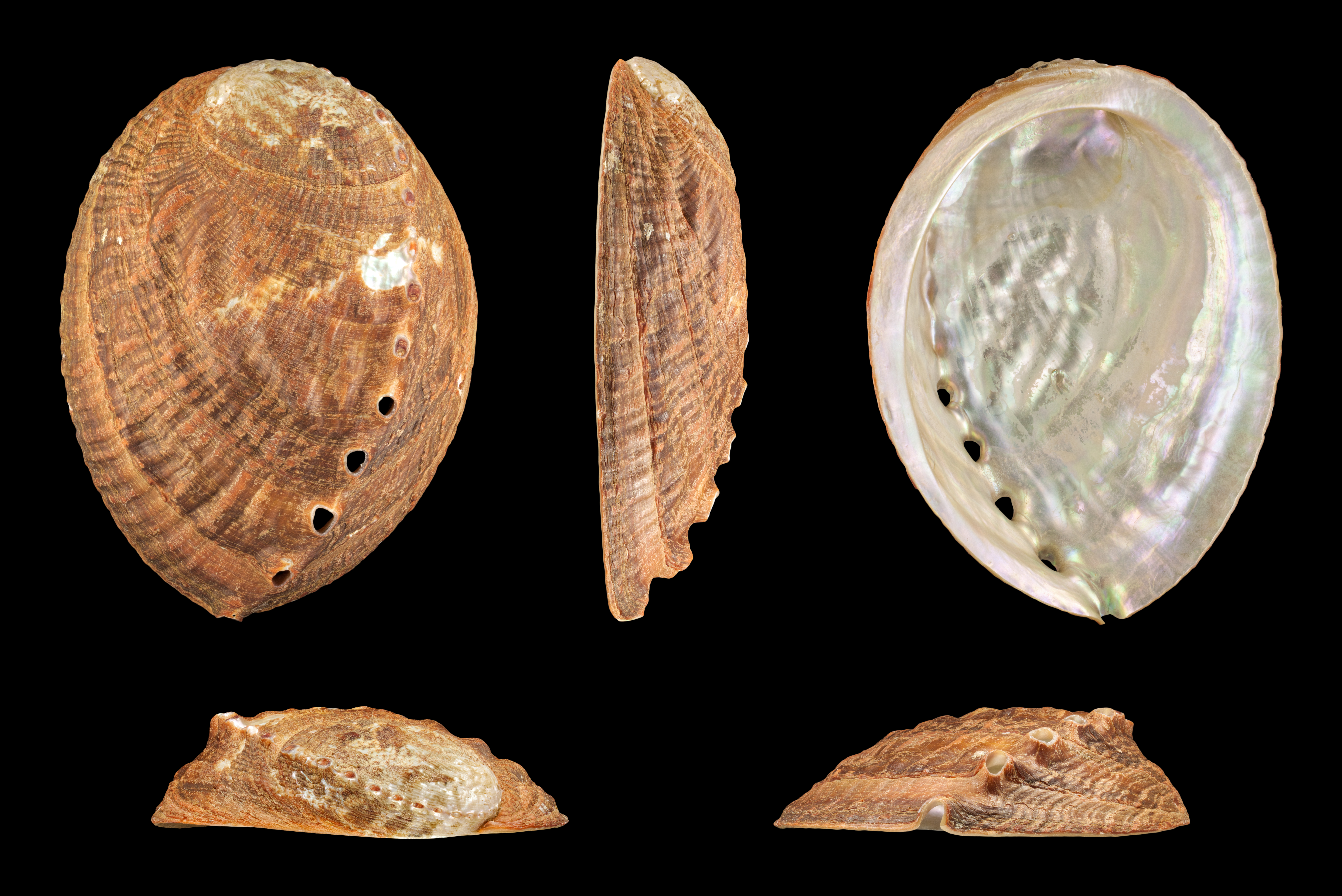 Haliotis gigantea var. sieboldii Reeve, 1846 , Siebold's Giant Abalone; Length 9.7 cm; Originating from Japan. Shell of own collection, therefore not geocoded.